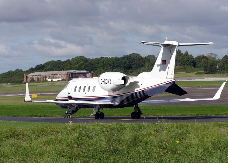 The winglets of a Learjet 60 business jet (D-CDNY) at Filton Airfield, Filton, Bristol, England. Taken by Adrian Pingstone in September 2004 and released to the public domain.